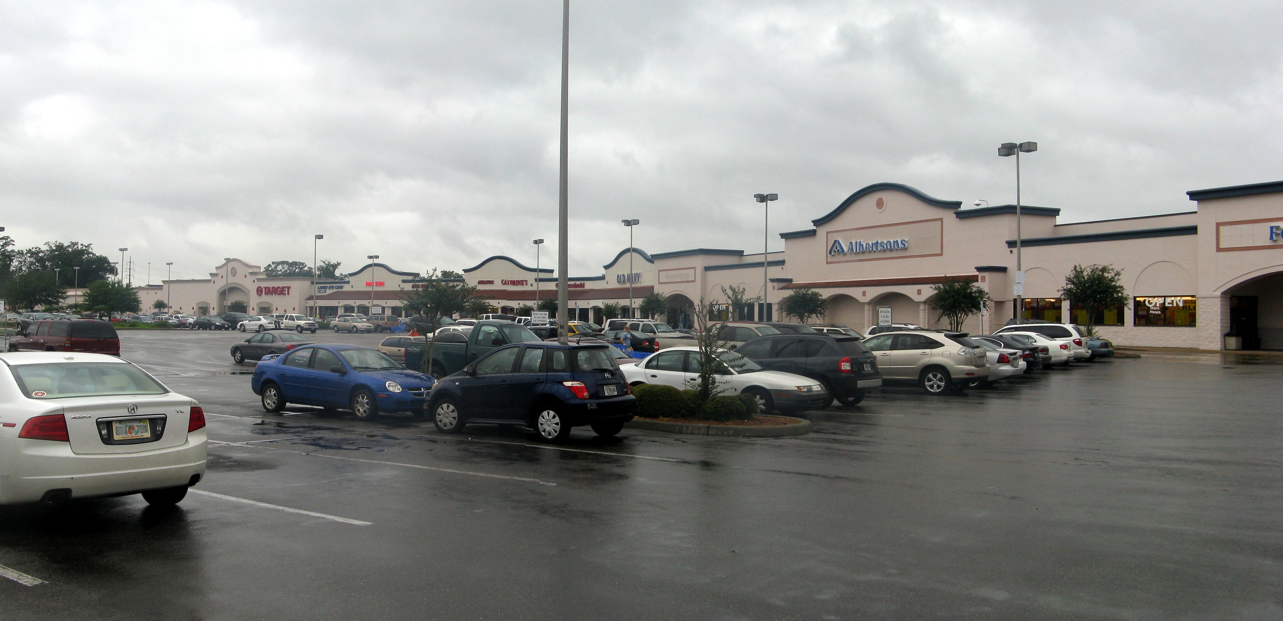 Butler Plaza West in Gainesville Florida. The Albertsons supermarket had recently been sold and is now a Publix Taken around the time Tropical Storm Fay passed through the area. Stitched from two images using Hugin and then touched up using GIMP